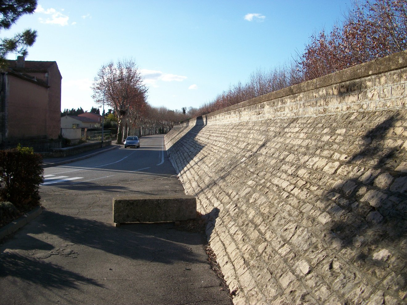 The D 237 road, bottom of the dike around Caderousse (Vaucluse, France).